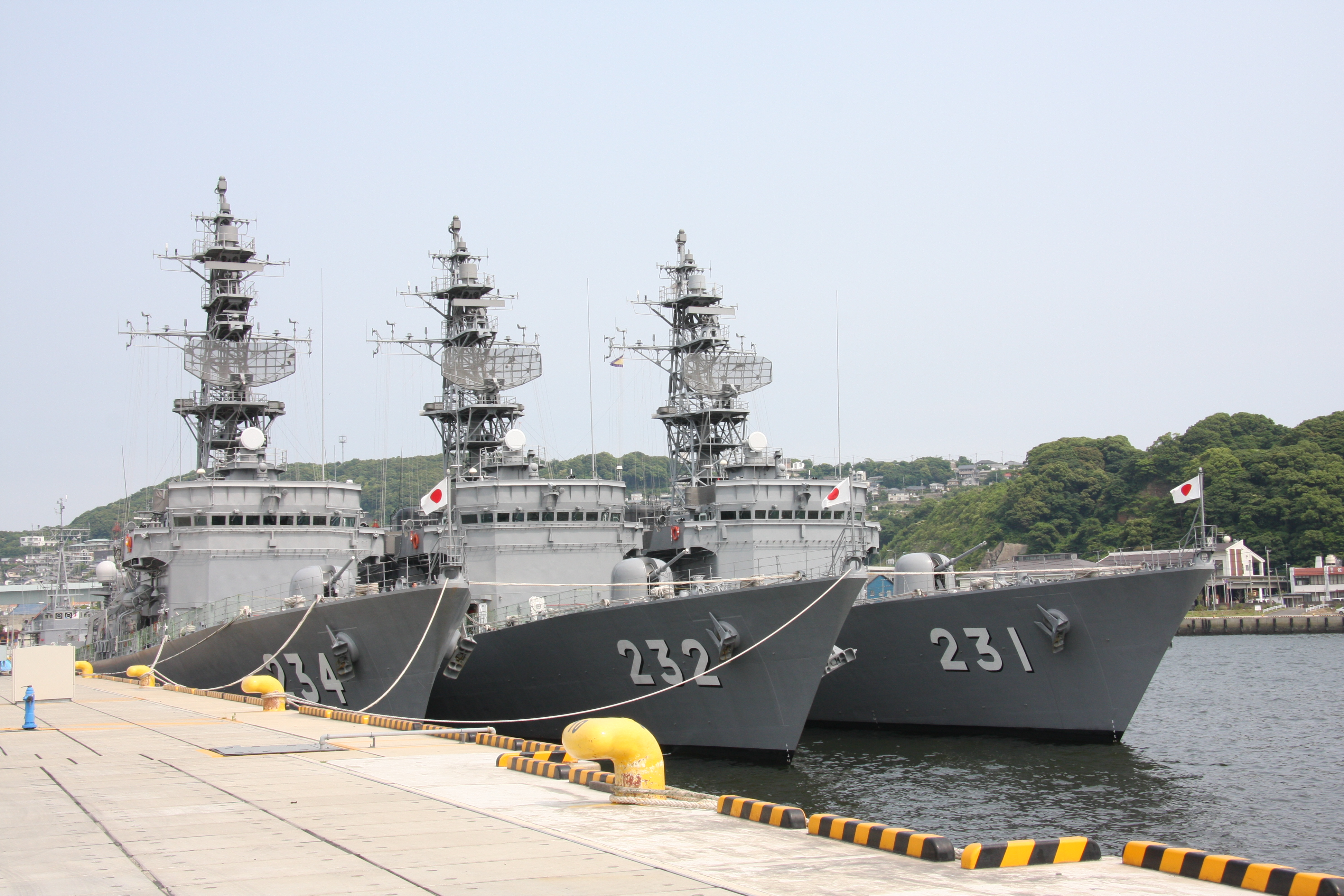 JS Tone (DE-234), Sendai (DE-232), Ōyodo (DE-231) at Sasebo. Canon EOS 40D